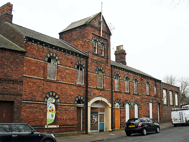 The former Drill Hall, frontage on Strand Road, Carlisle